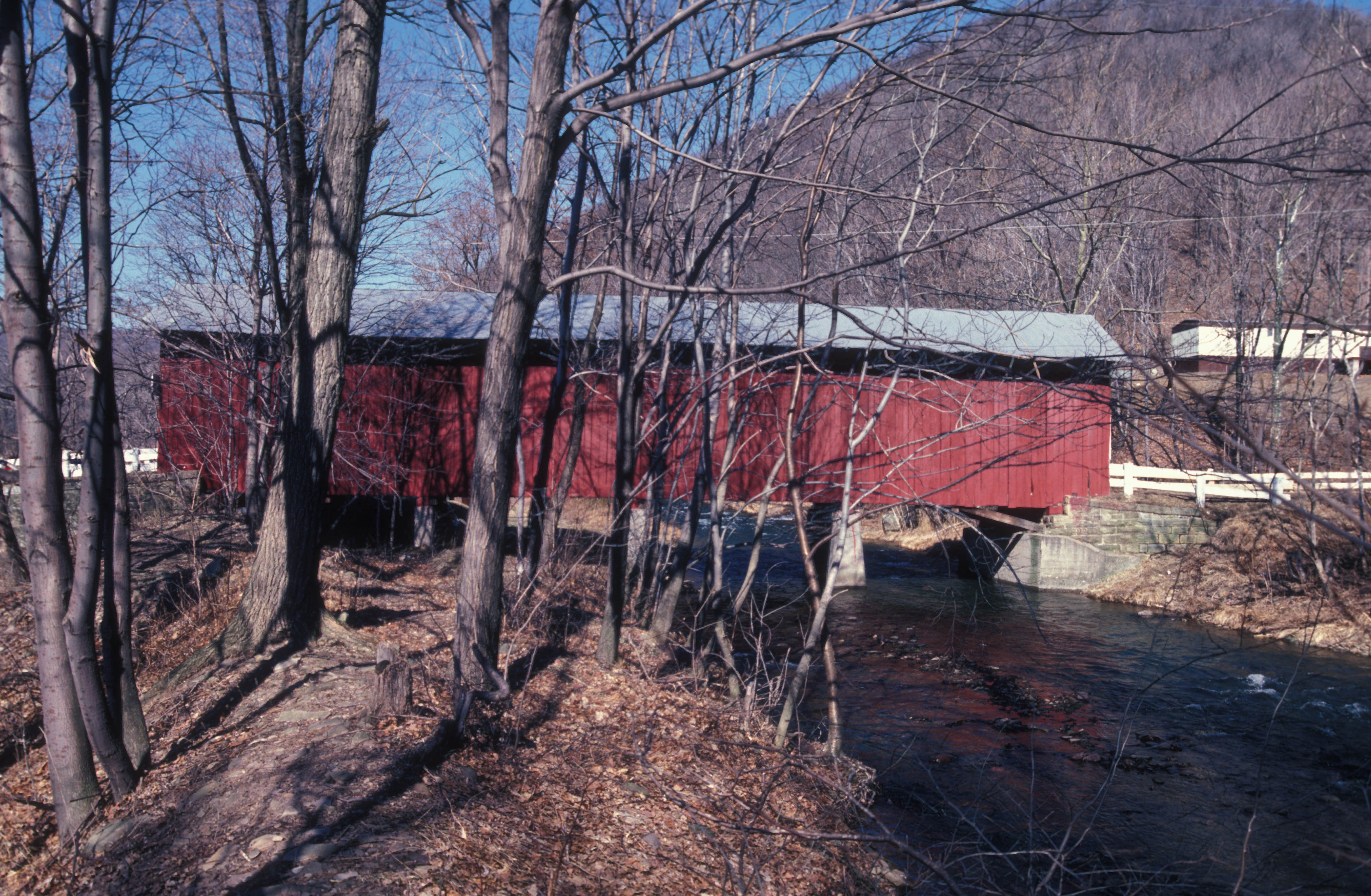 NEW BALTIMORE COVERED BRIDGE OVER RAYSTOWN BRANCH OF THE JUNIATA RIVER; 1879, 86’ MKING